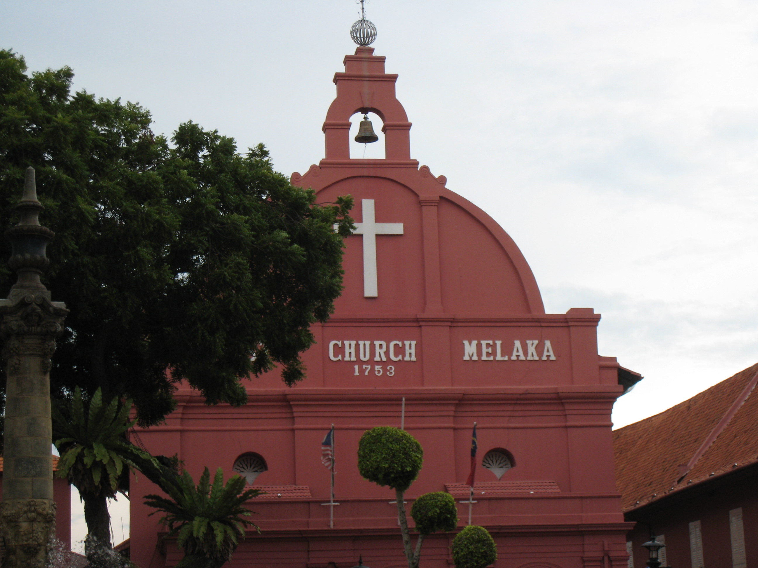 First Church of Melaka, that was built by the Dutch in 1753.